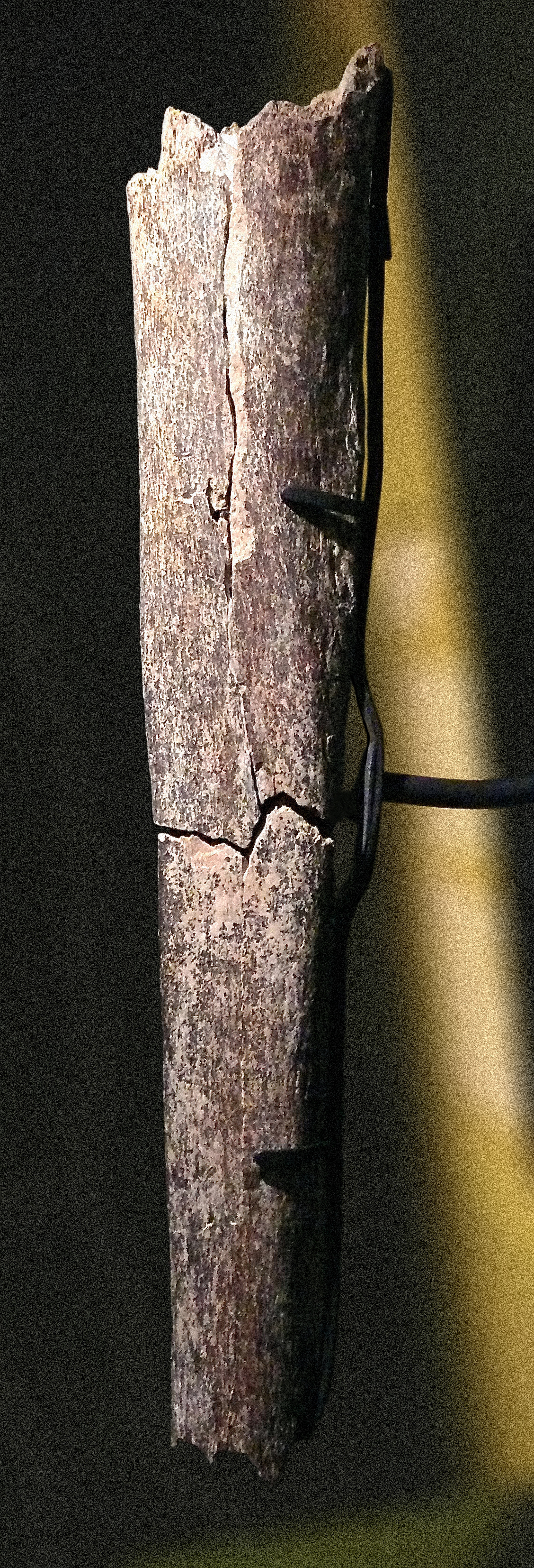 Tibia from Boxgrove (Homo heidelbergensis) discovered in West Sussex, England in 1993, 500 KYA.